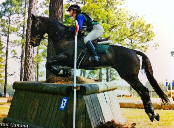 Sarah Lundy Baker and Business Class at Southern Pines Horse Trials II